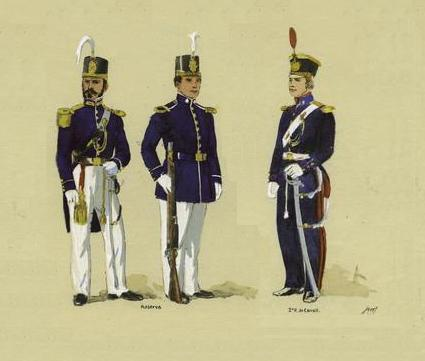 Brazilian soldiers, 1851.